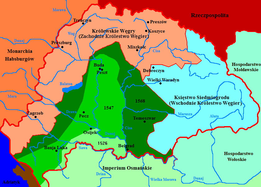 Map that showing Ottoman conquest of the medieval Kingdom of Hungary from 1526 to 1568, Habsburg Kingdom of Hungary and Eastern Hungarian Kingdom. Legend: orange - Habsburg Kingdom of Hungary within Hapsburg Monarchy, blue - Eastern Hungarian Kingdom, green - Ottoman Empire.